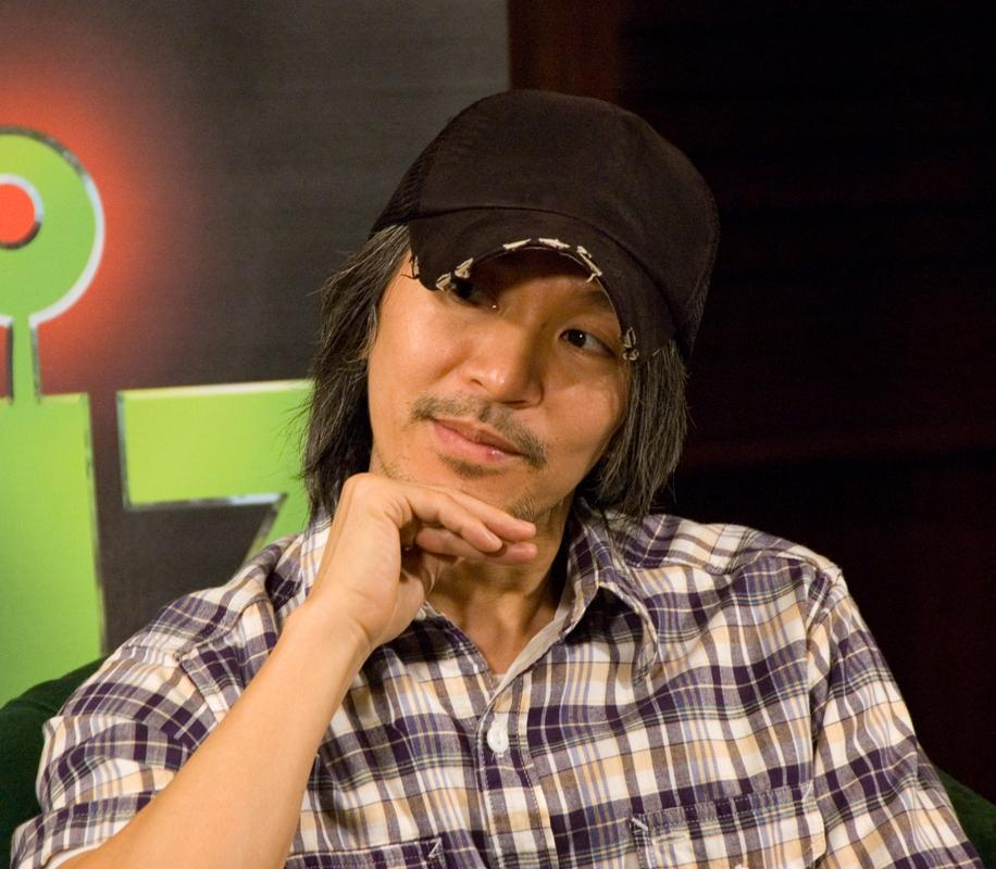 Stephen Chow at a press conference in Kuala Lumpur, Malaysia. "Press conference at J.W.Marriott KL on 5 Feb 2008 with Sing Yeh, Lee Sheung Ching & Kitty Zhang." Slightly cropped from the original using MS Paint.